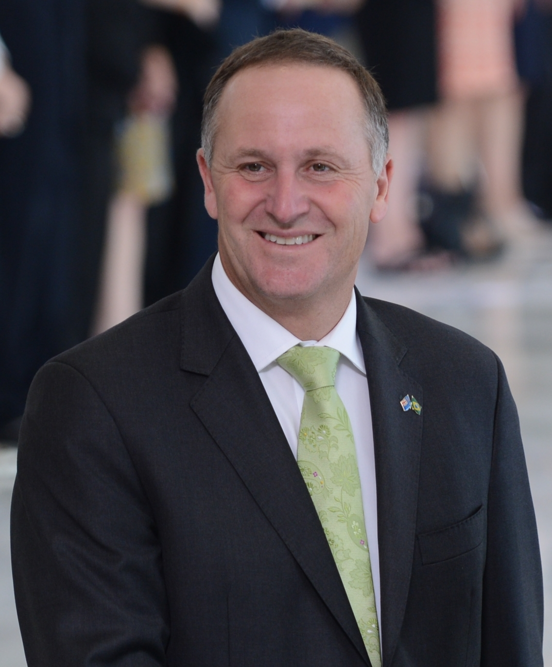 John Key, 38th Primer Minister of New Zealand.